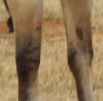 Animal from Werribee Open Range Zoo, Victoria, Australia.